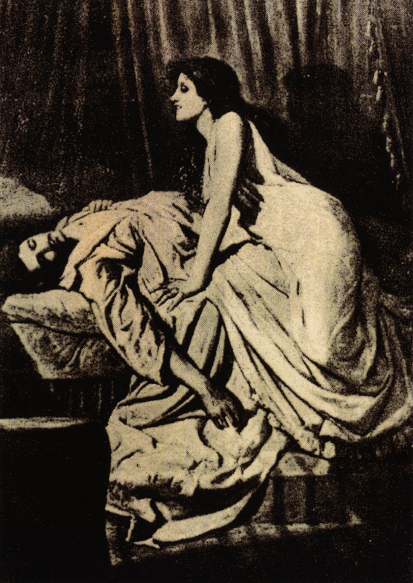 The Vampire